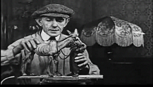 Joseph Leeland Roop (Louisville, 22 dicembre 1869 – Glendale, 22 dicembre 1932), American sculptor and animator (Screenshot from gasoline Trails 1923) with his characters in clay Tom and Jerry